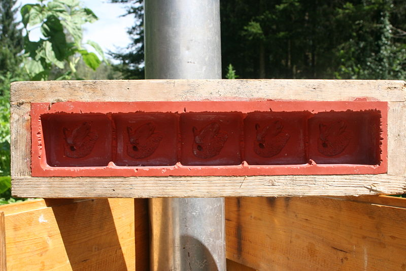 Model for soap